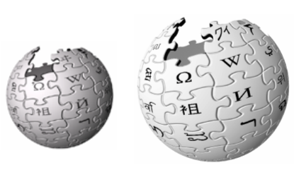 original description: "new version of Nohat puzzle sphere" and Definitive Logo